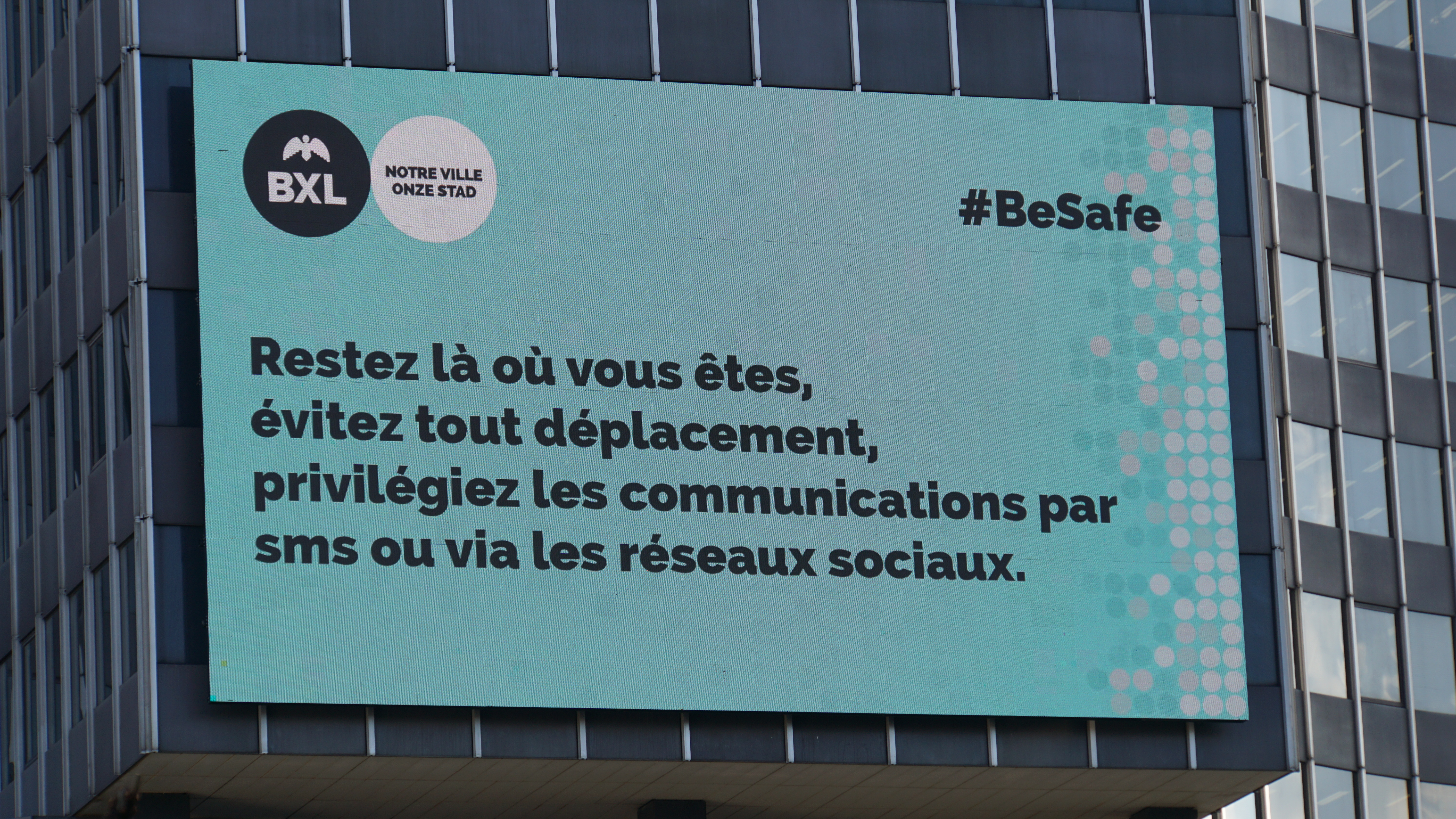 Billboard displaying the city's recommendations after the 22th March 2016 bombings in Bruxelles. The text is in french and means « Stay where you are, avoid any move, prefer communications using sms or social networks ». Also is the hashtag « #BeSafe » in the top right corner.